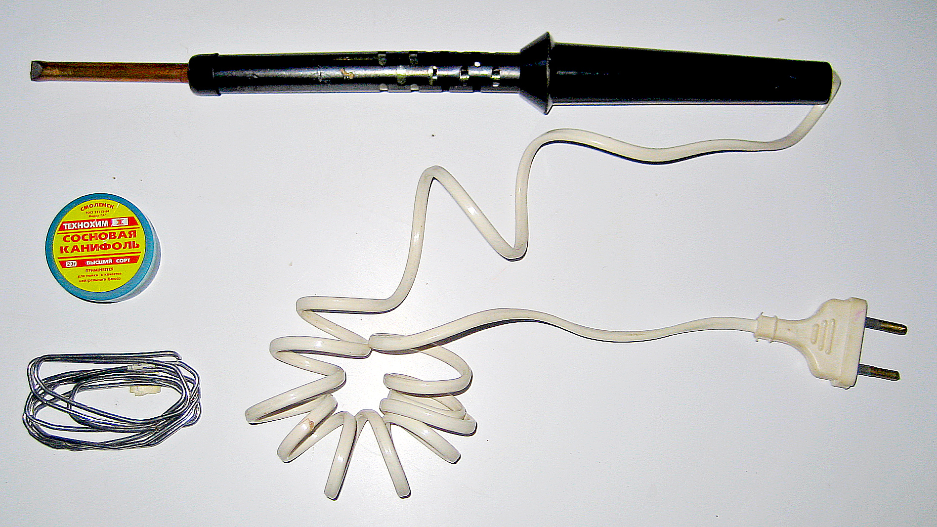 A soldering iron is a hand tool used in soldering. It supplies heat to melt solder so that it can flow into the joint between two workpieces.